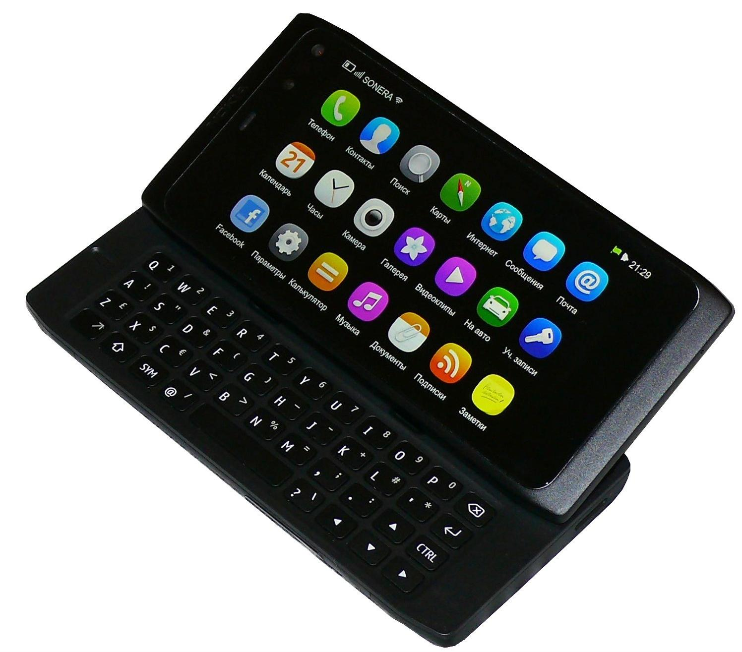 Nokia N950 mobile phone running Harmattan software and Russian language customization